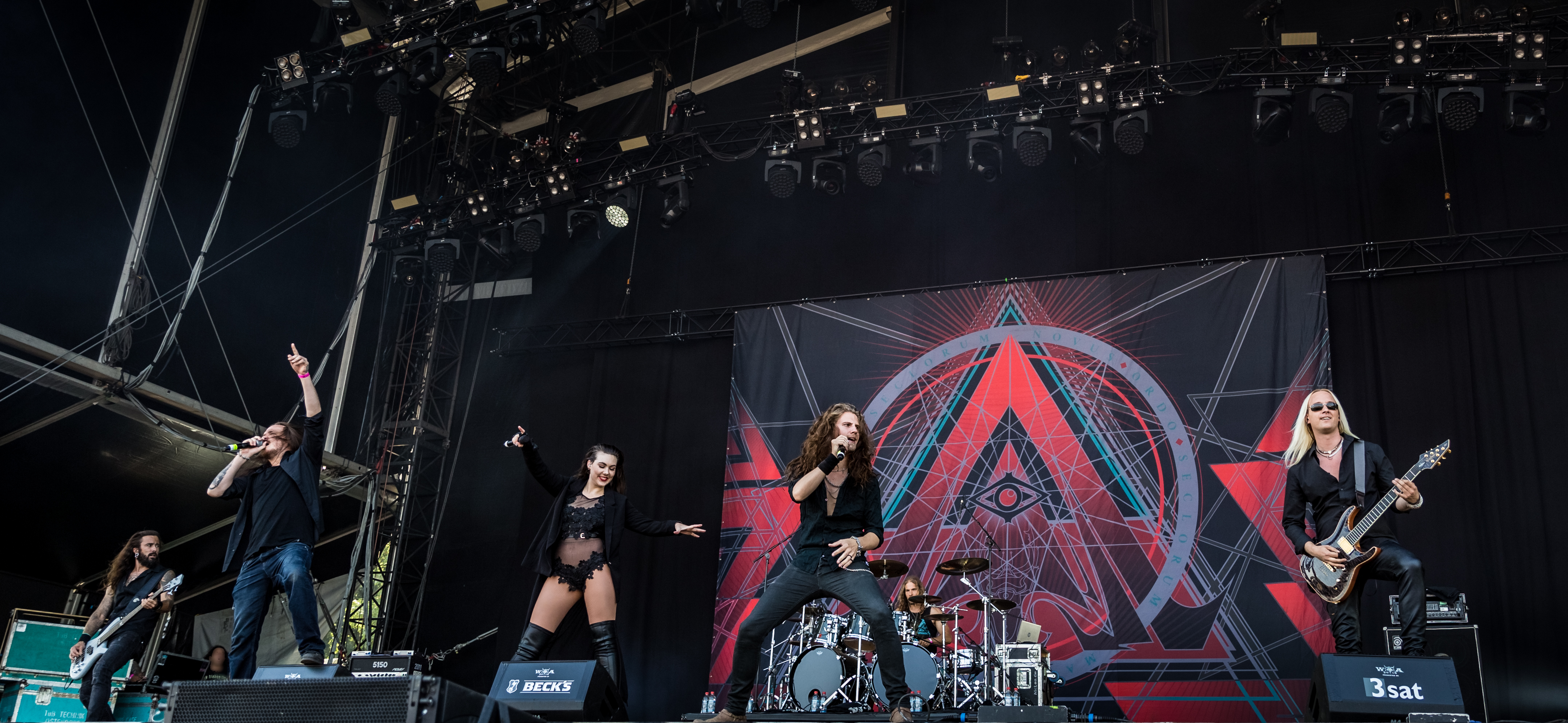 Amaranthe - Wacken Open Air 2018